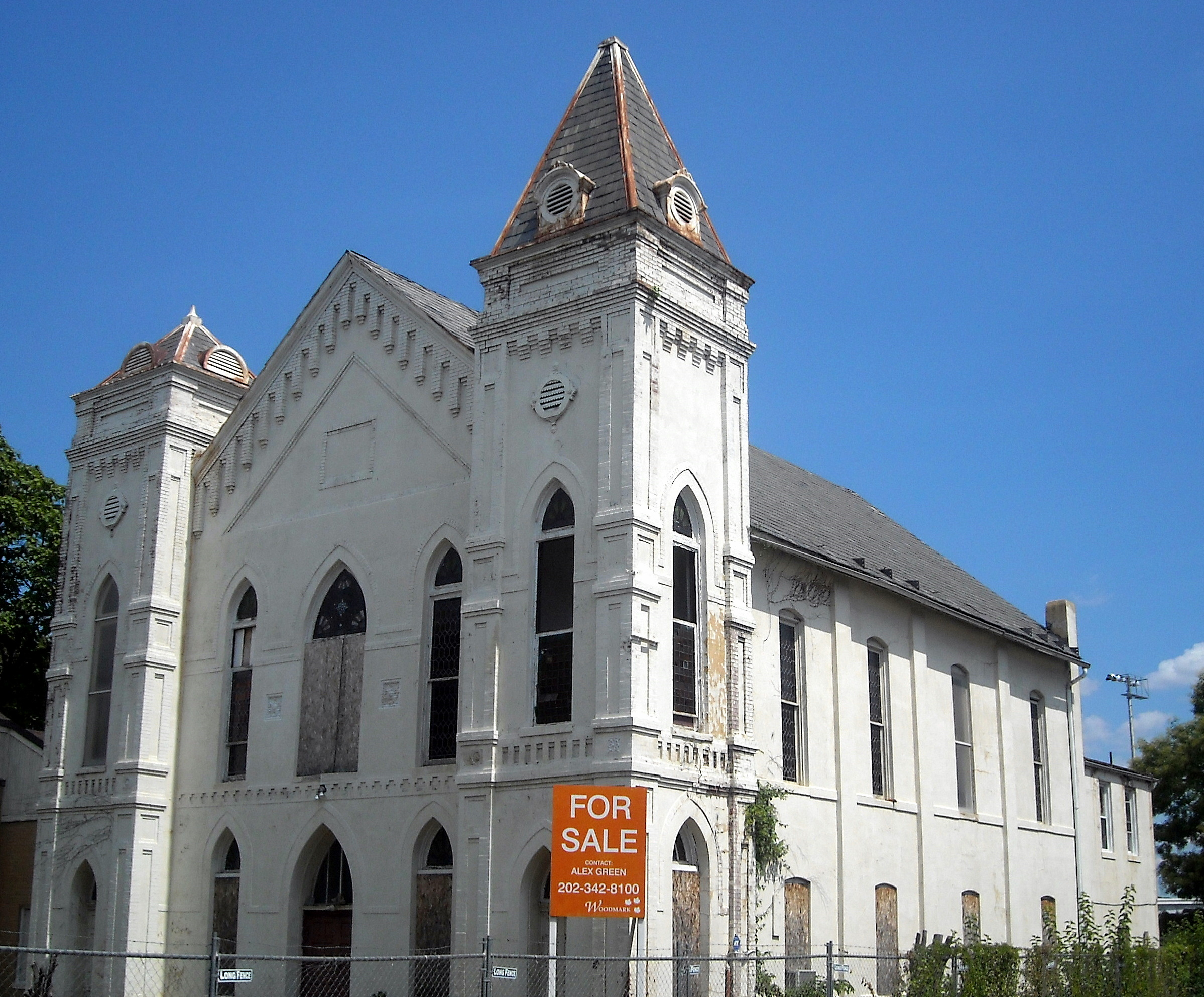 The former building used by Friendship Baptist Church located at 734 First Street, SW in the Southwest Waterfront neighborhood of Washington, D.C. Constructed in 1886, the church was designed by James A. Boyce and is an example of Romanesque architecture. Additional congregations that have used the building include Virginia Avenue Baptist Church, Miracle Temple of Faith, and Redeemed Temple of Jesus Christ. The church building is listed on the National Register of Historic Places.